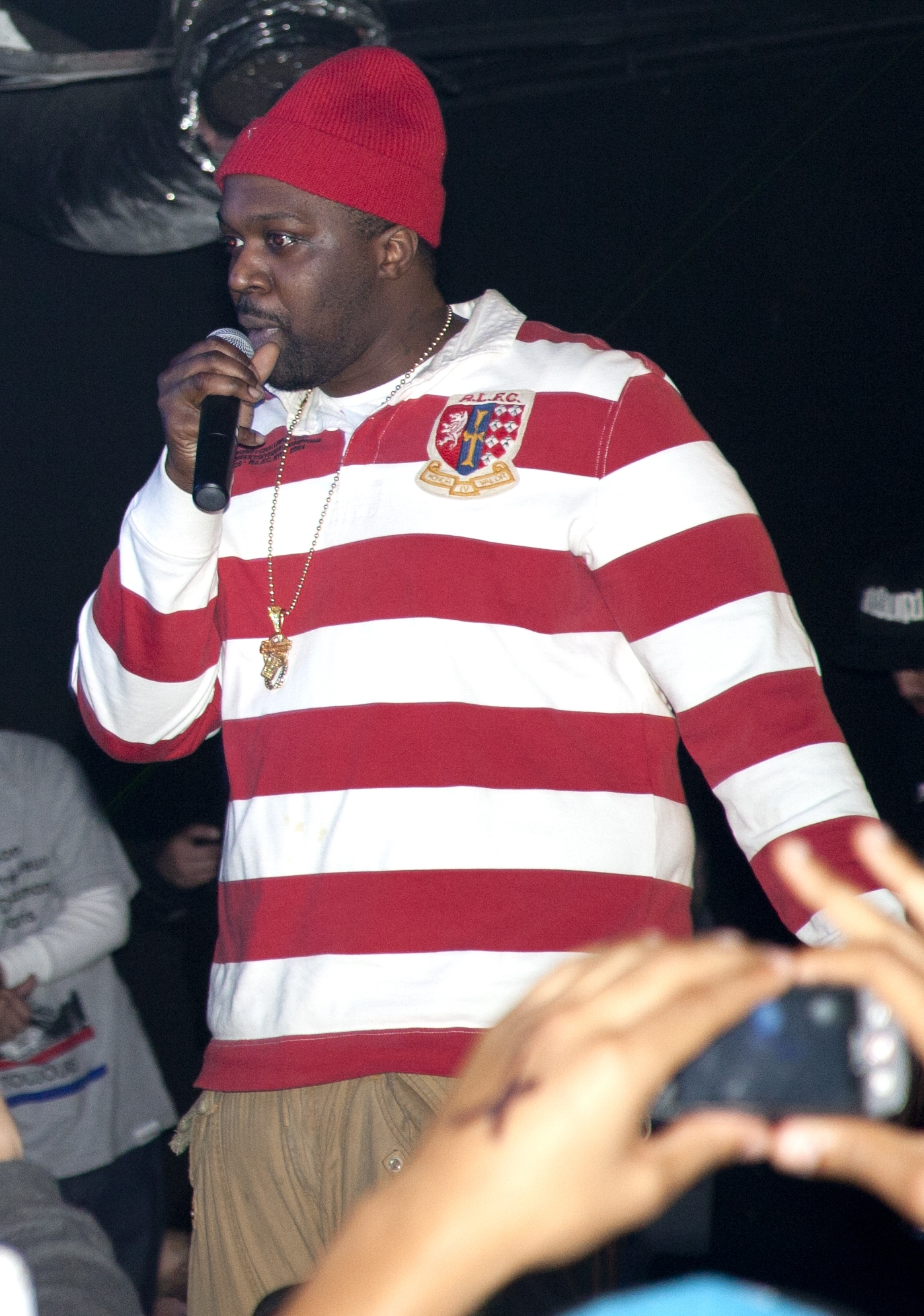 Smoke DZA at the Smoker's Club Tour on December 11, 2010